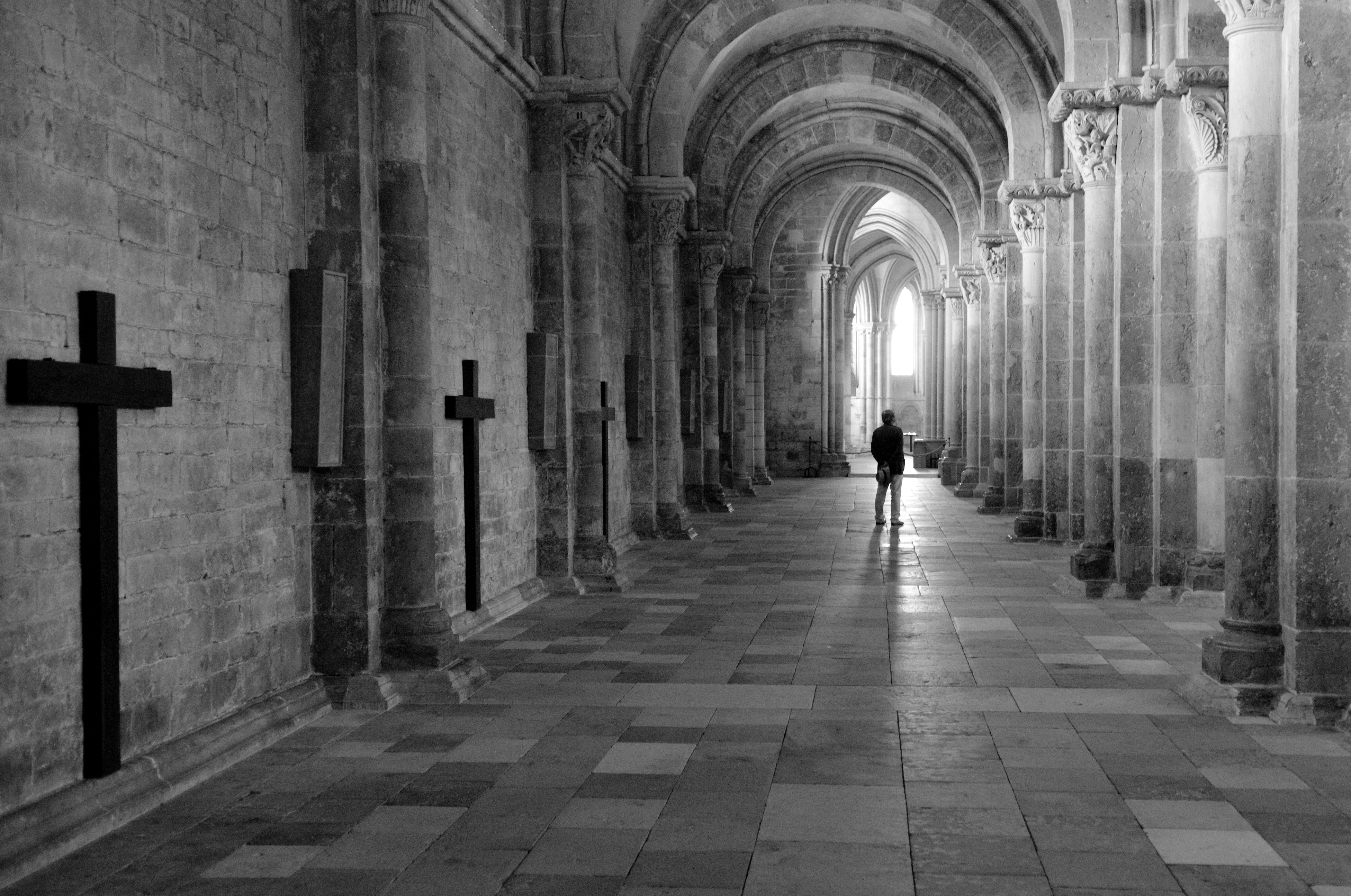 Basilica of St. Magdalene in Vézelay